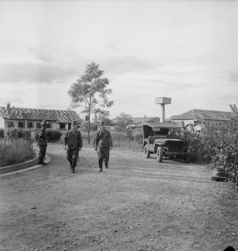 The Japanese Surrender in Thailand, 1945 Lieutenant Colonel Hamada, accredited representative of the Japanese Southern Army, arrives at the headquarters of Major General Evens, General Officer Commanding Thailand, to discuss the handover of military installations to the British.